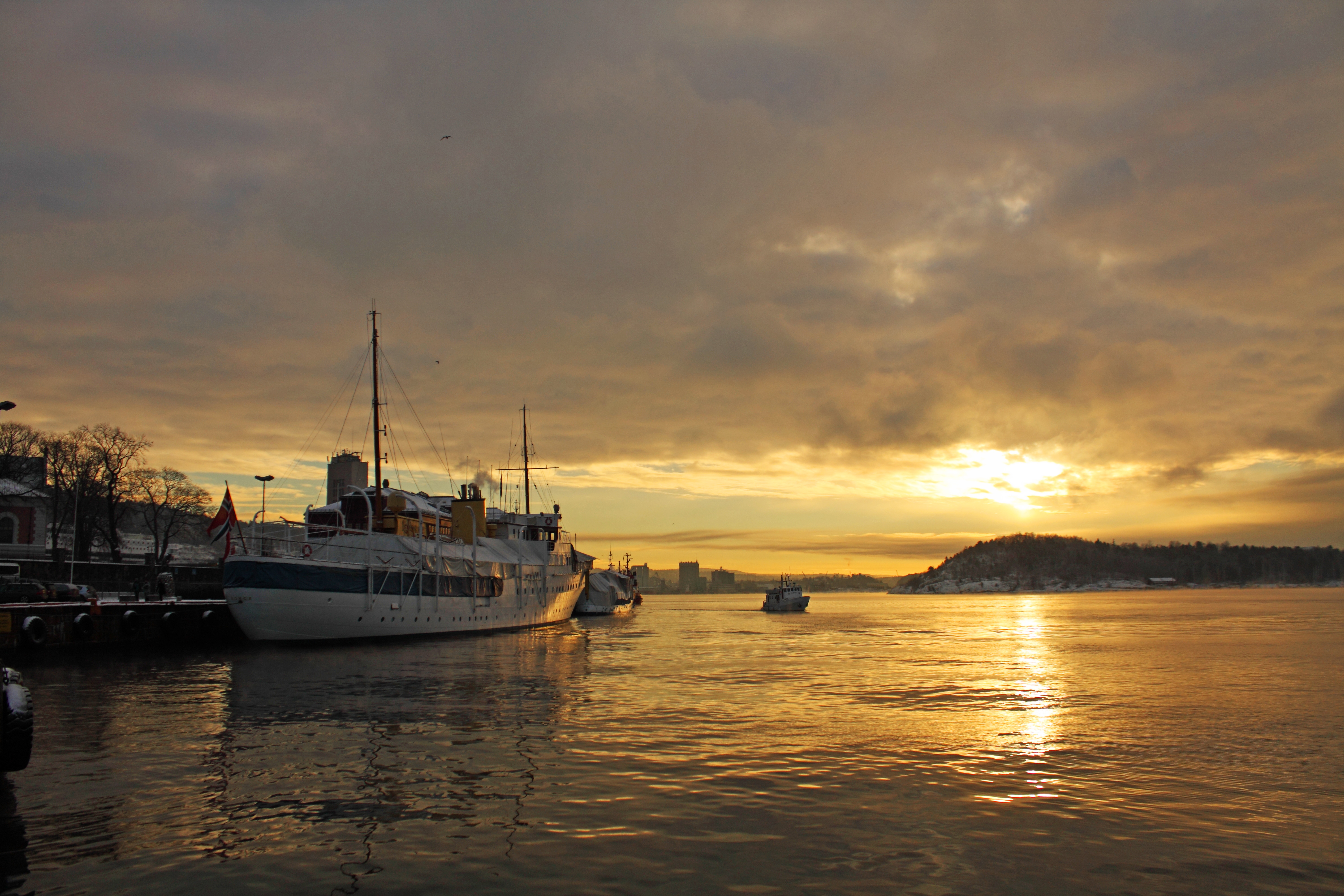 HNoMY Norge by the pier in Oslo.